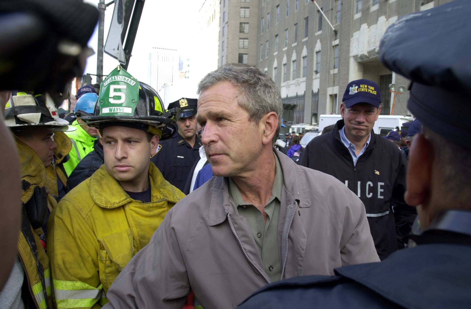 New York, NY, September 14, 2001 -- President Bush greets and offers words of hope and consolation to rescue workers at the site of the collapsed World Trade Center. Photo by SFC Thomas R. Roberts/ NGB-PASE